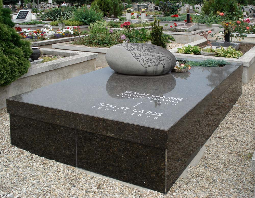 Tomb of Lajos Szalay. City Cemetery, Miskolc, Hungary. Sculptor: Éva Varga.